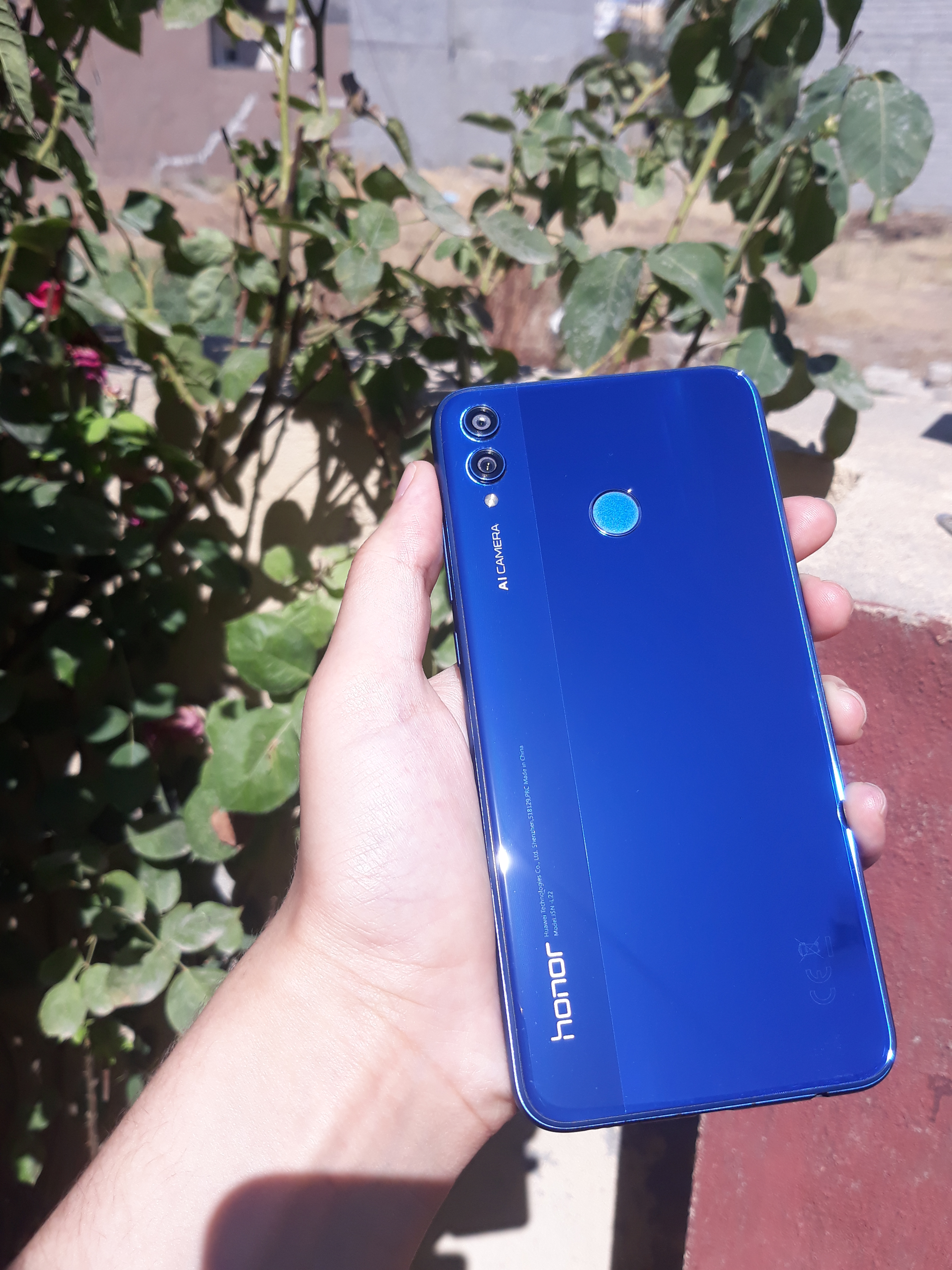 Honor 8X Huawei Honor 8X The Honor 8x is a smartphone made by Huawei under their Honor sub-brand.